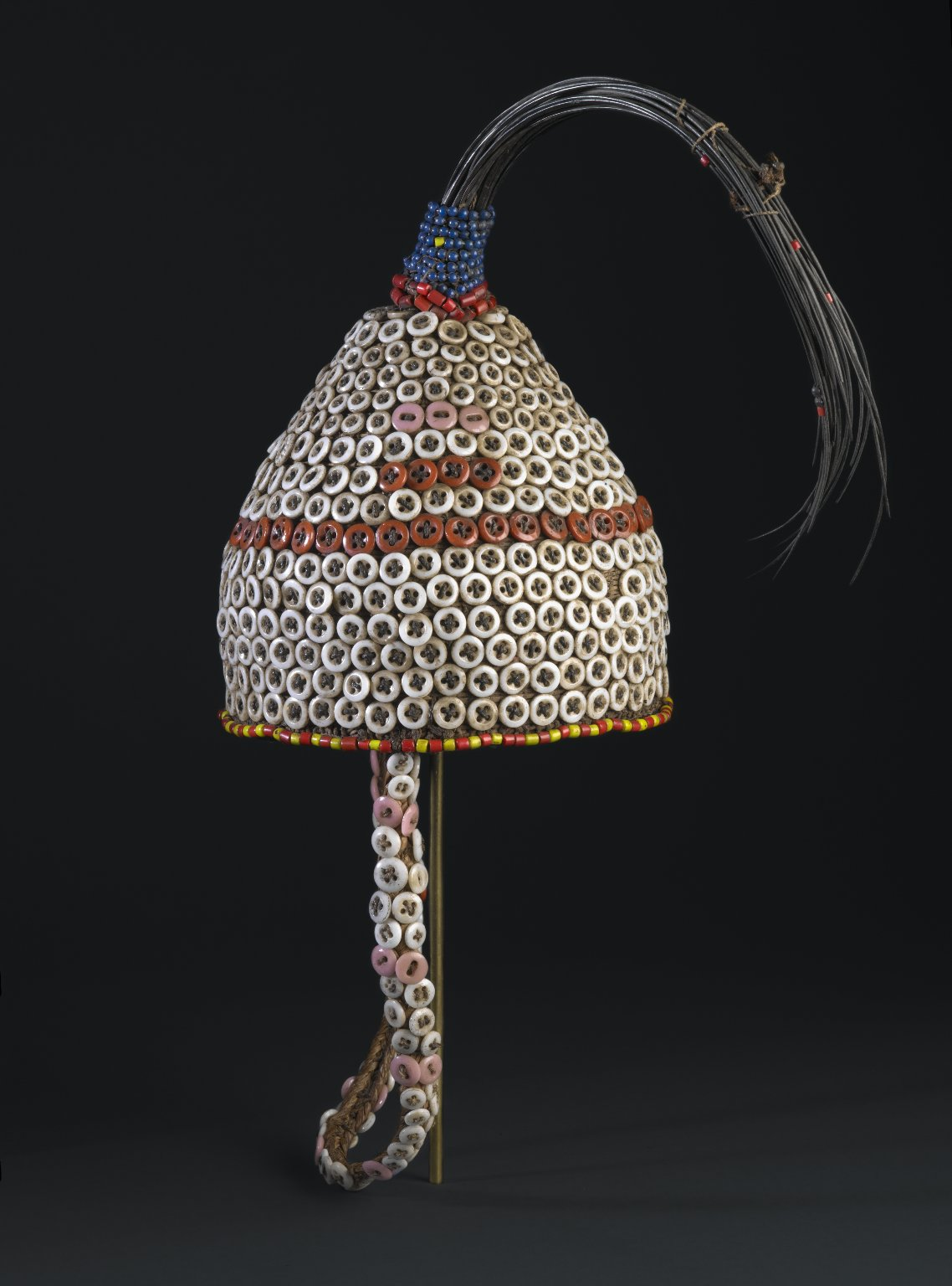 Hat composed of two layers of plant stems that are woven together in a basketry form. Exterior is covered with buttons (glass and plastic?) and the edge is trimmed with alternating orange and yellow colored glass beads. The hat is primarily covered in white buttons with a band of red in the center, with 2 sections of 3 pink buttons. The strap is decorated with pink and white buttons. The buttons are sewn on to the hat with coarse brown Z twist thread made from plant material. Sewn on to the crown of the hat is a bundle of elephant tail hair, decorated with red glass beads and two black, metal (?) beads. A piece of fiber is twined and knotted within the bundle. The lower portion of the bundle, where it is sewn on to the crown is wrapped in blue, red, and a single yellow glass bead. The surface of the hat is lightly soiled. Condition: good.